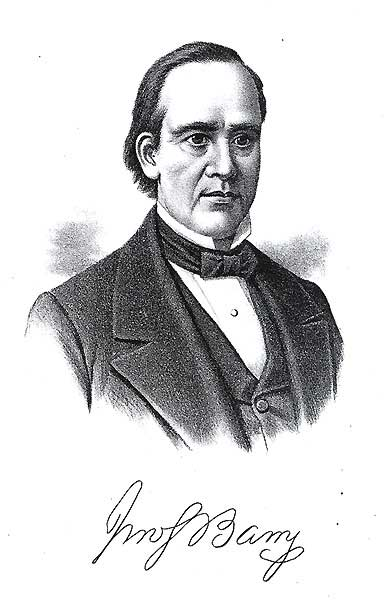 John Steward Barry